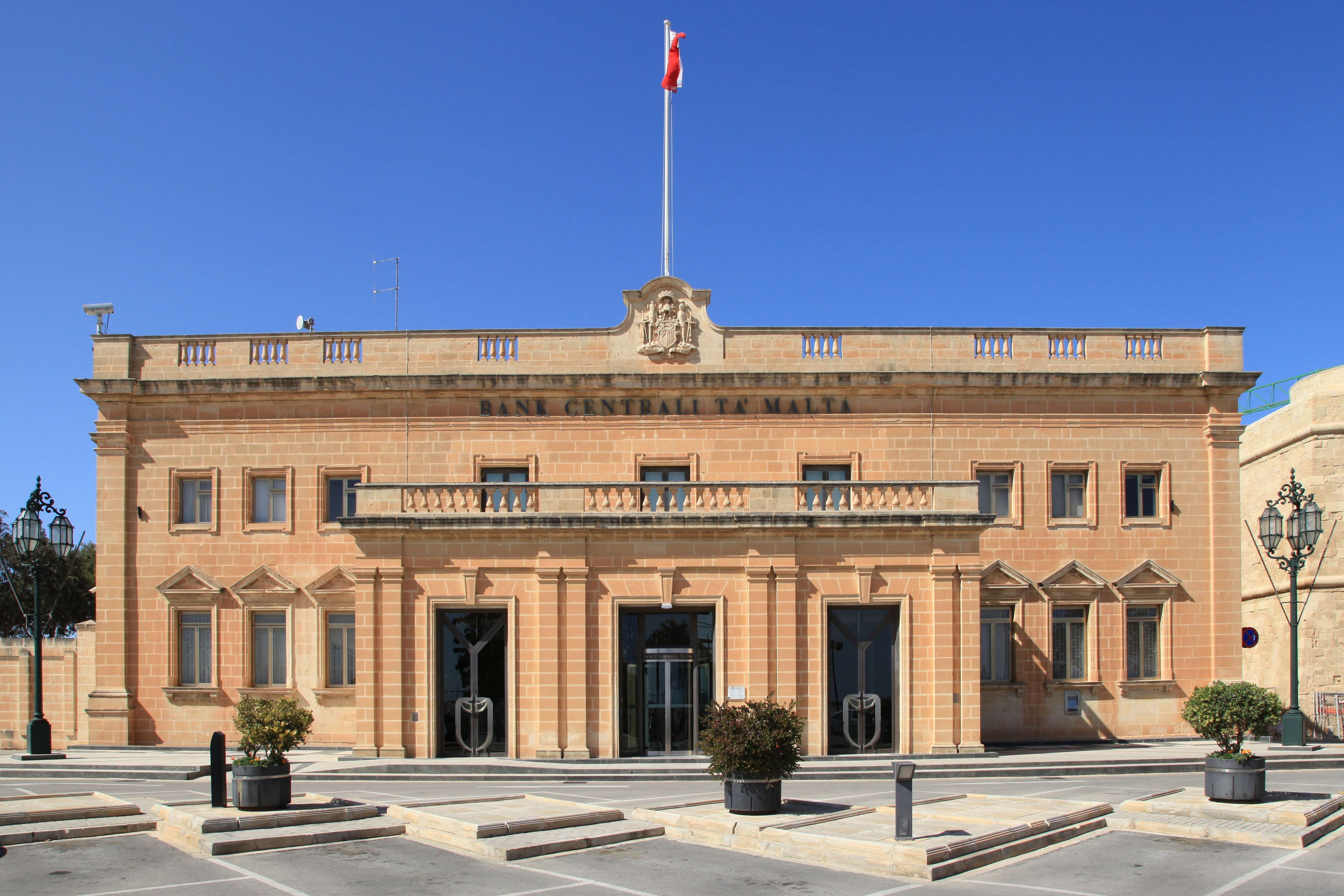 Main Building of the Central Bank of Malta, Pope Pius V Street in Valletta, Malta.